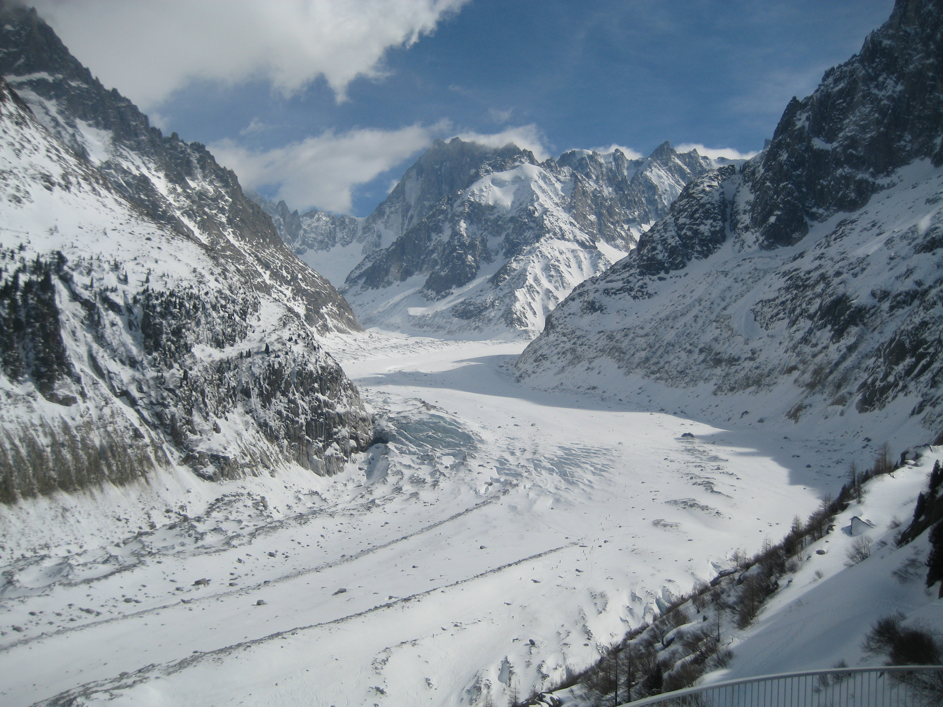 Mer de Glace, Chamonix, France